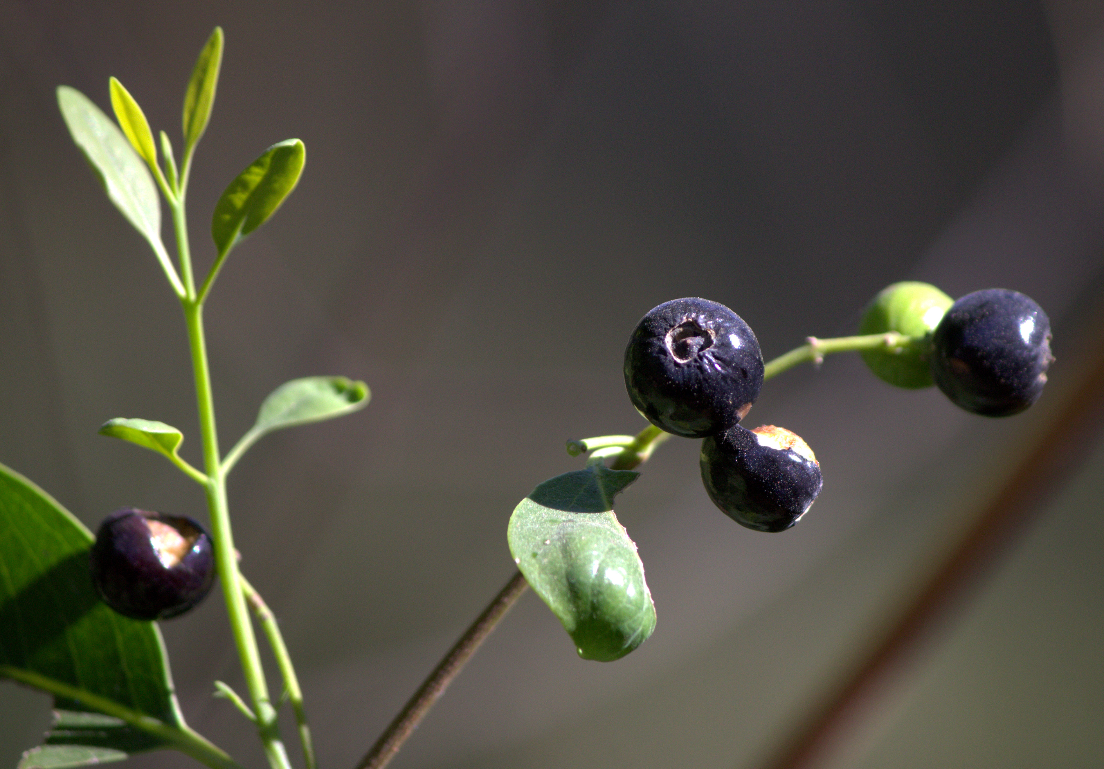 Sandal wood fruit from JP Nagar Forest,Banaglore,Karnataka,India